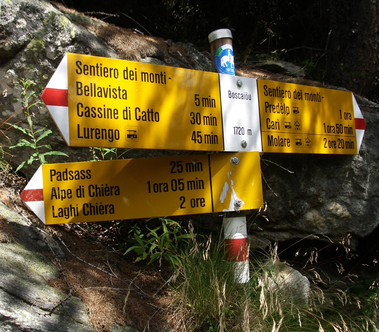 Leventina valley, Switzerland self-made, August 2005